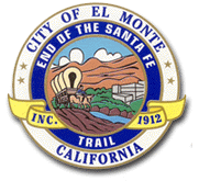 Official seal of the city of El Monte, California